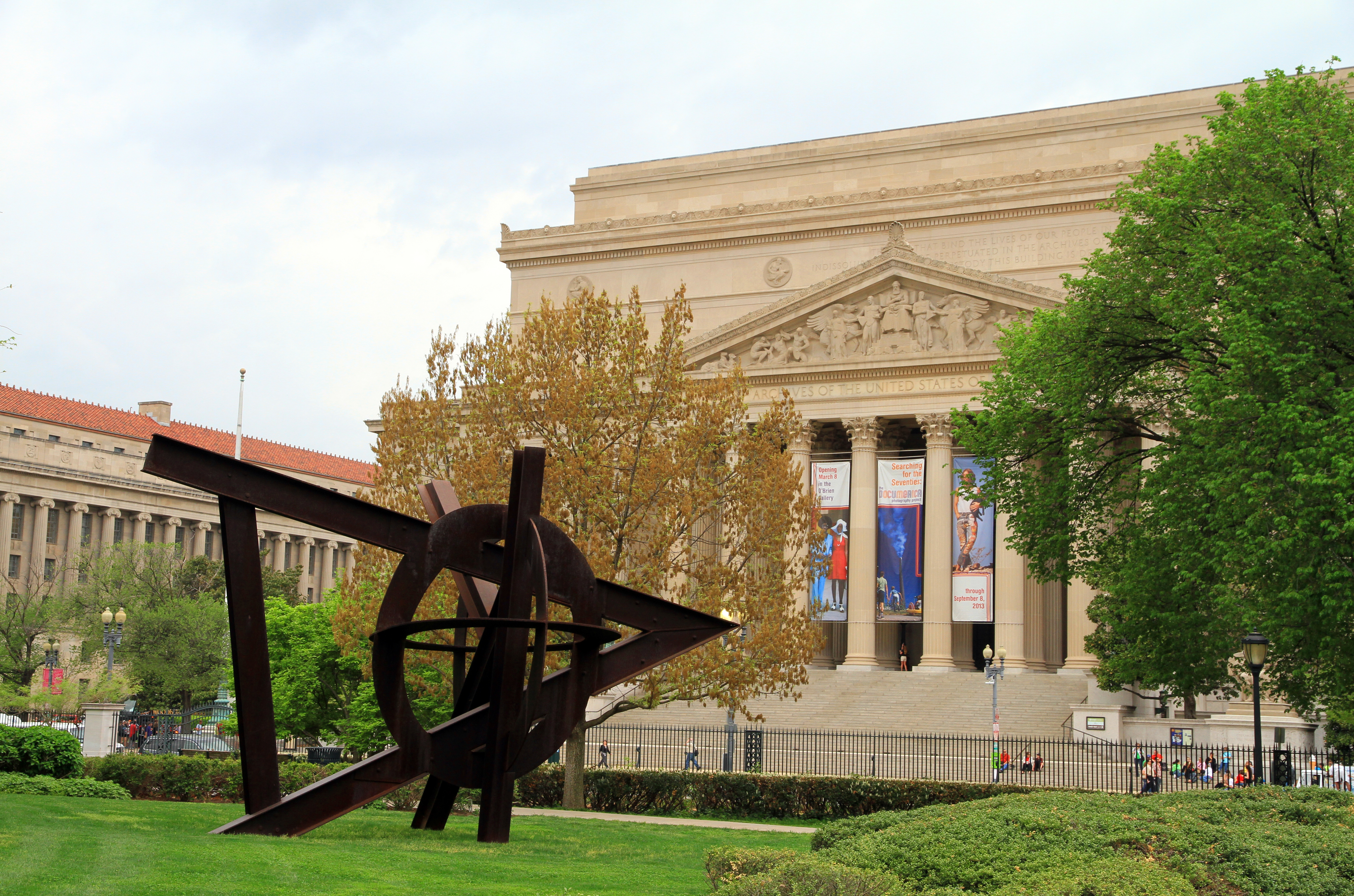 Archives of the United States of America